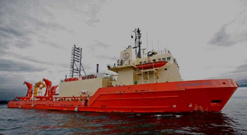 The MV C Champion